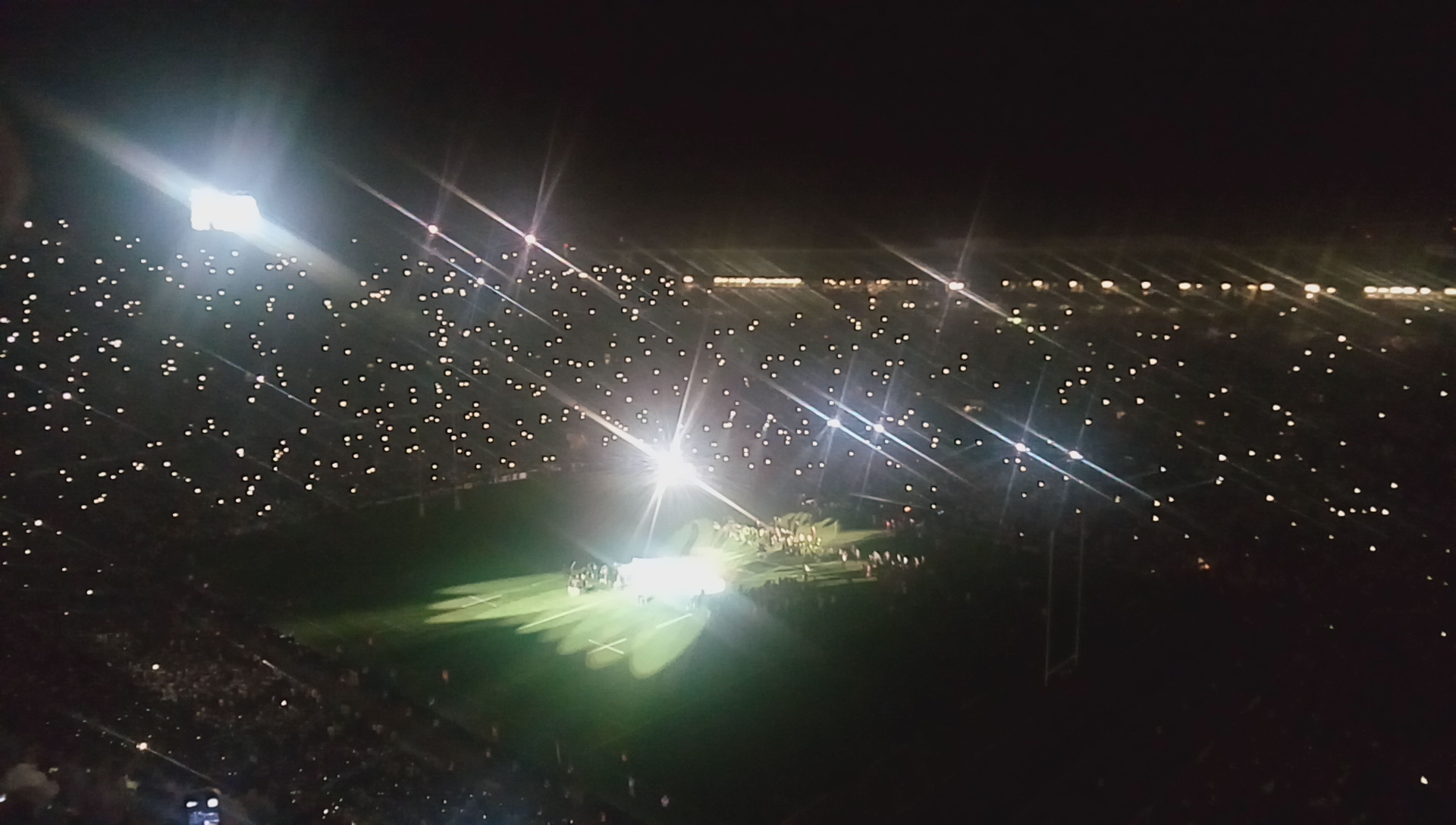 Top 14 finale Barcelone 2015-16 trophy cerimony